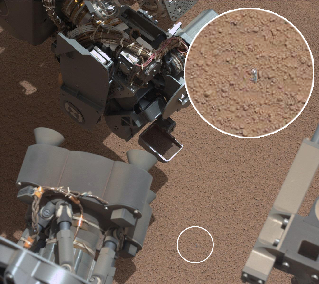 10.08.2012 View of Curiosity's First Scoop Also Shows Bright Object This image from the right Mast Camera (Mastcam) of NASA's Mars rover Curiosity shows a scoop full of sand and dust lifted by the rover's first use of the scoop on its robotic arm. In the foreground, near the bottom of the image, a bright object is visible on the ground. The object might be a piece of rover hardware. This image was taken during the mission's 61st Martian day, or sol (Oct. 7, 2012), the same sol as the first scooping. After examining Sol 61 imaging, the rover team decided to refrain from using the arm on Sol 62 (Oct. 8). Instead, the rover was instructed to acquire additional imaging of the bright object, on Sol 62, to aid the team in assessing possible impact, if any, to sampling activities. For scale, the scoop is 1.8 inches (4.5 centimeters) wide, 2.8 inches (7 centimeters) long. Image Credit: NASA/JPL-Caltech/MSSS